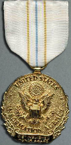 United States Information Agency Distinguished Honor Award. The Distinguished Honor Award is an award of the United States Information Agency, an independent agency charged with public diplomacy which has since been merged into the Department of State. This award has been replaced with the State Department's Distinguished Honor Award. This award was presented to groups or individuals in recognition of exceptionally outstanding service or achievements of marked national or international significance.